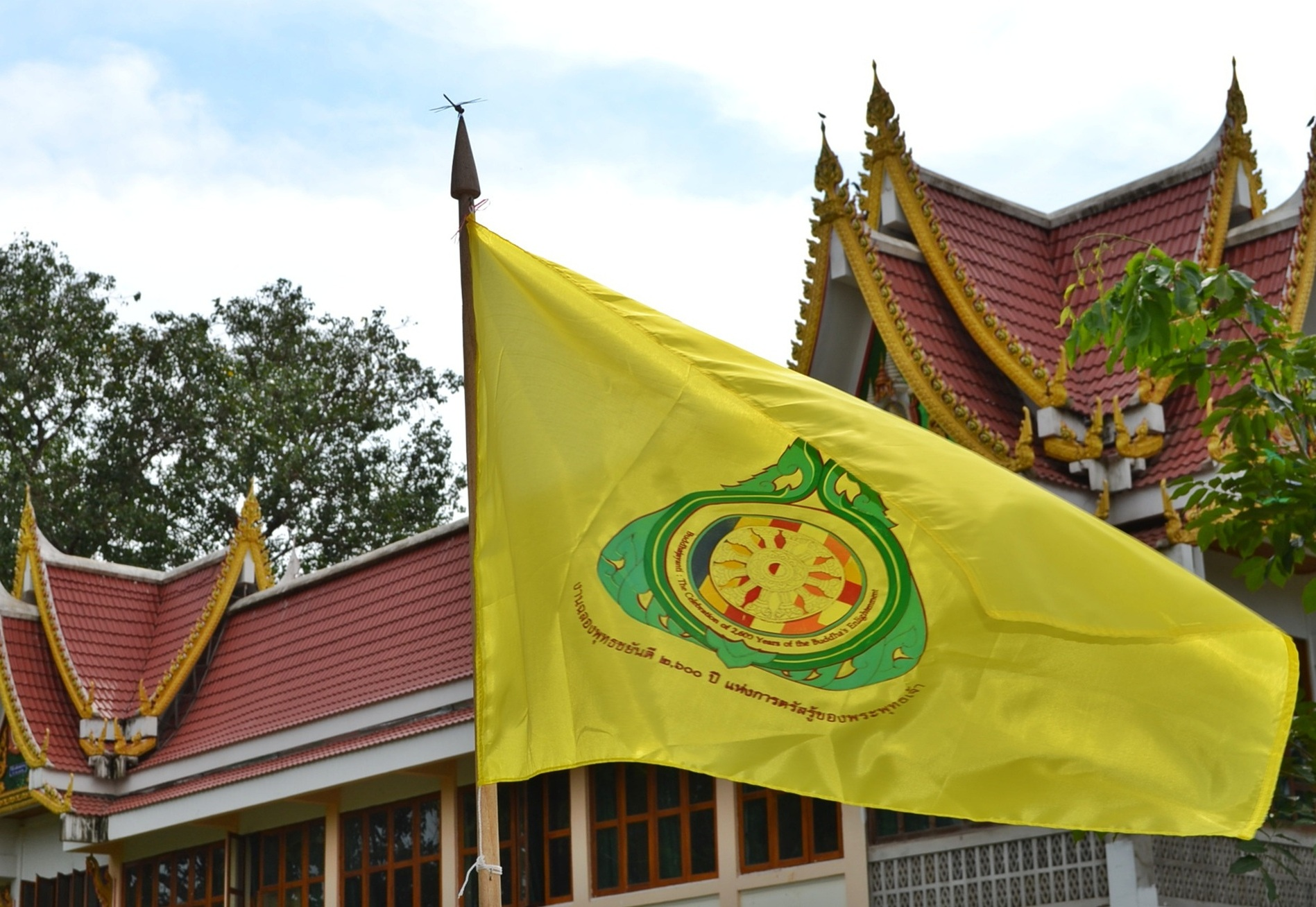 Wat Khung Taphao, Ban Khung Taphao, Khung Taphao subdistrict, Mueang Uttaradit, Uttaradit Province, Thailand.) on December 2, 2012.